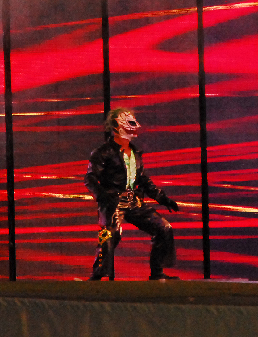 Ray Mysterio took care of JBL's business in 21 seconds flat.